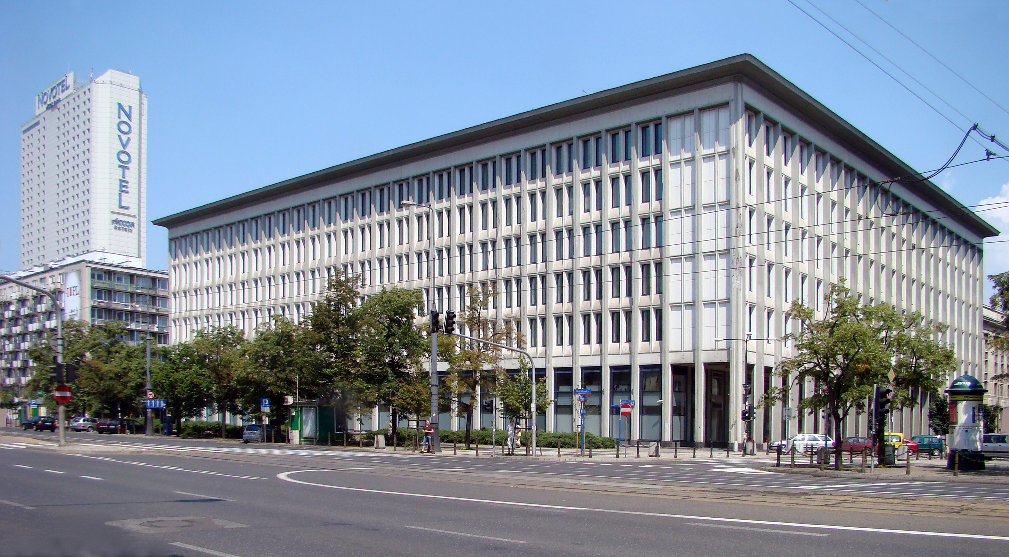 Office building, Marszałkowska St., Warsaw, Poland